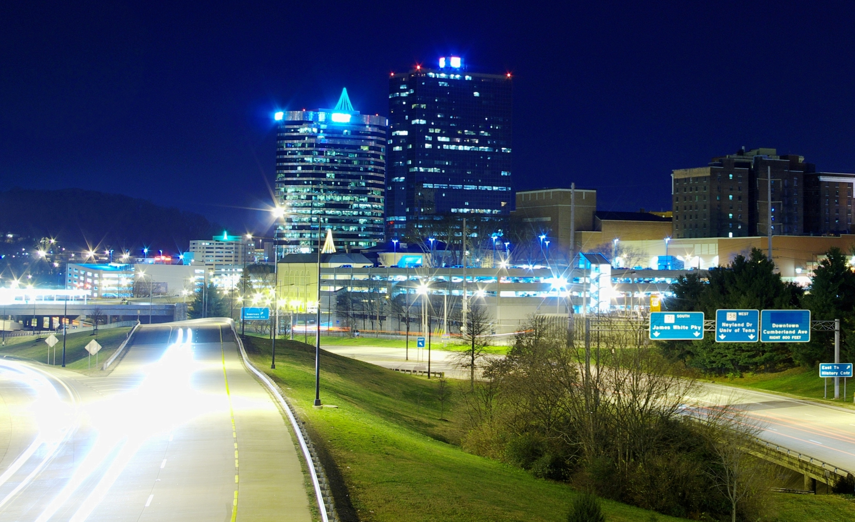 James White Parkway (TN-158) and the James White Parkway Extension, viewed from the Robert Booker bridge in Knoxville, Tennessee, USA. The Plaza Tower and the Riverview Tower rise at the center.